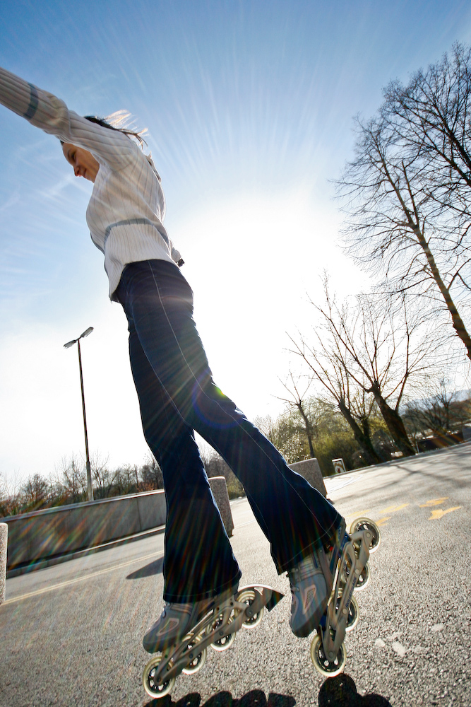 Rollerblading